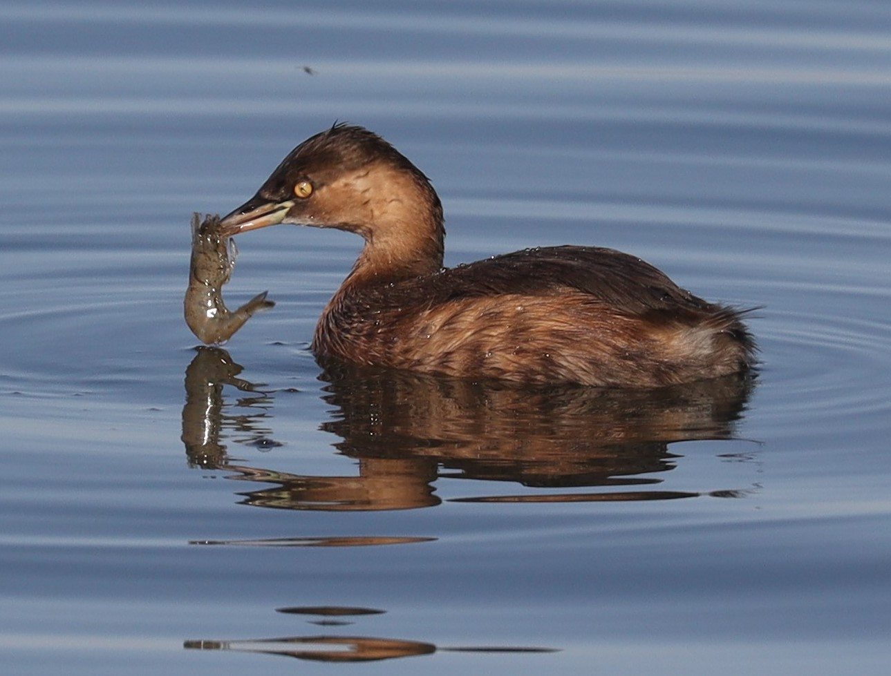 Tachybaptus ruficollis eating Shrimp in Kiso River, Aichi Prefecture, Japan.